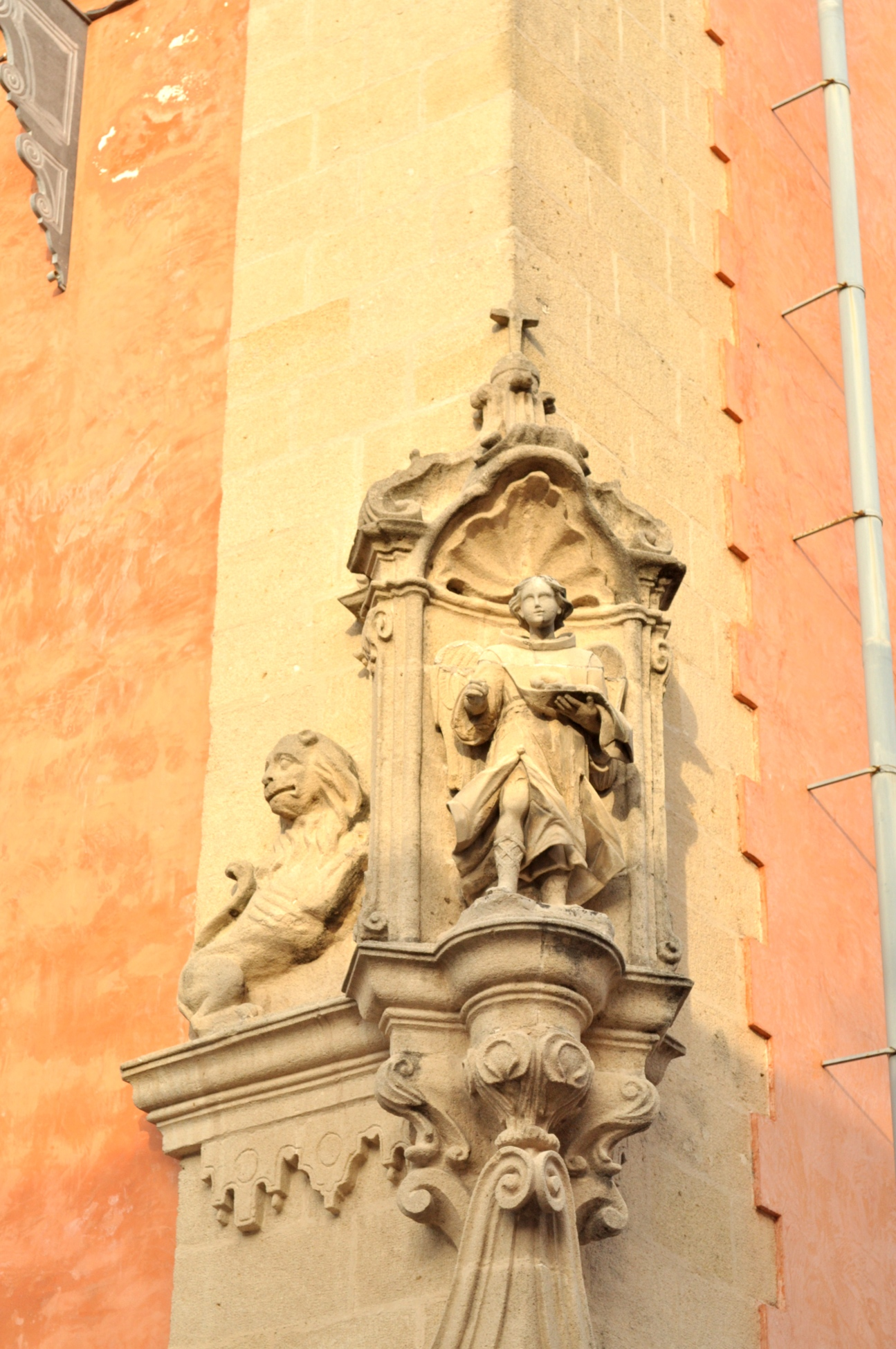 Villapanes Palace, Saint Raphael vaulted niche, Jerez